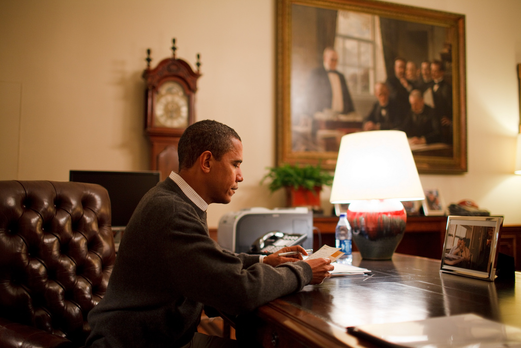 President Barack Obama reads one of 10 letters from the public selected for his personal reading from the volume of mail he receives. He sits at his desk in the Treaty Room Office in the Private Residence 2/22/09.